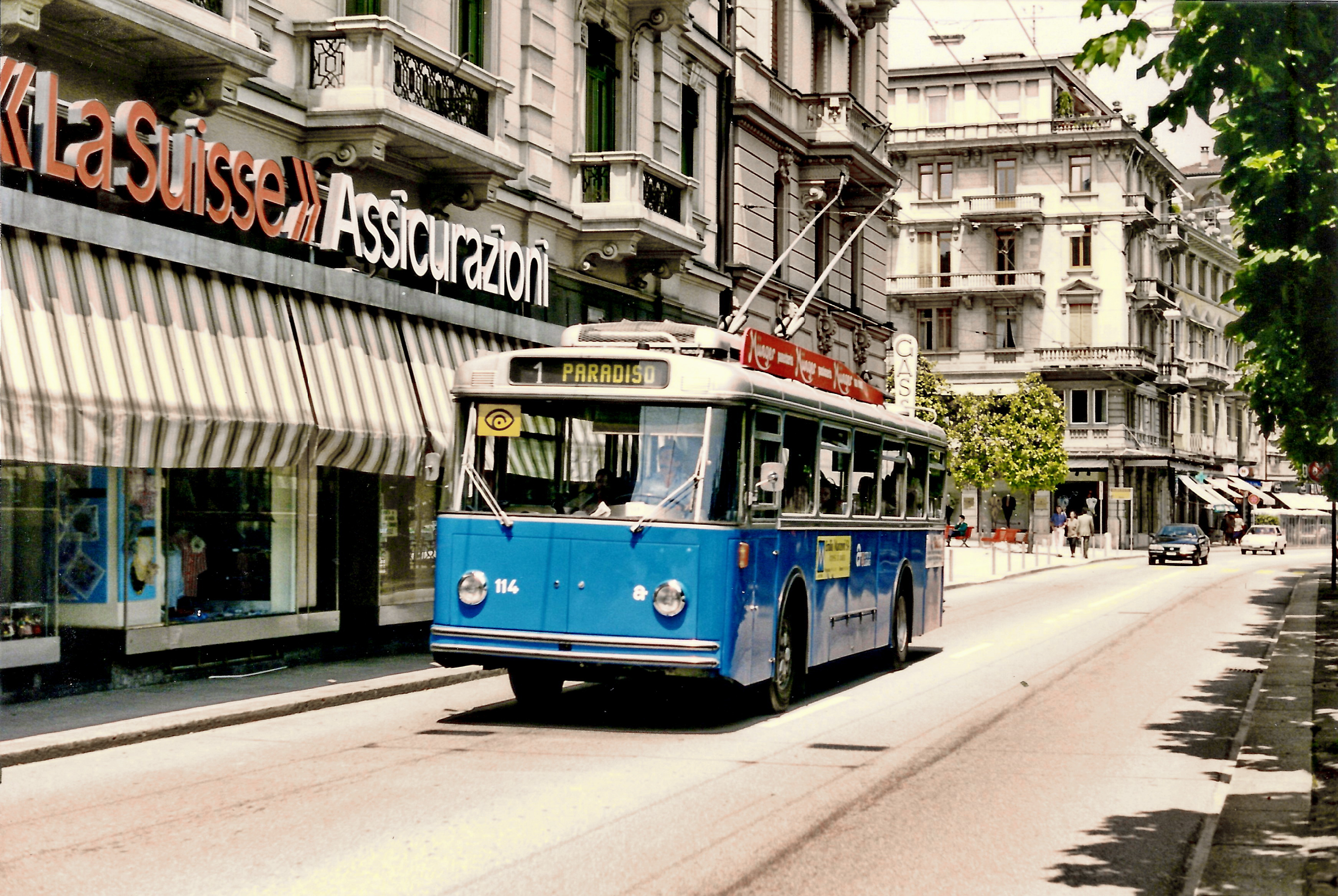 Lugano trolleybus 114, a 1966 FBW-built trolleybus.